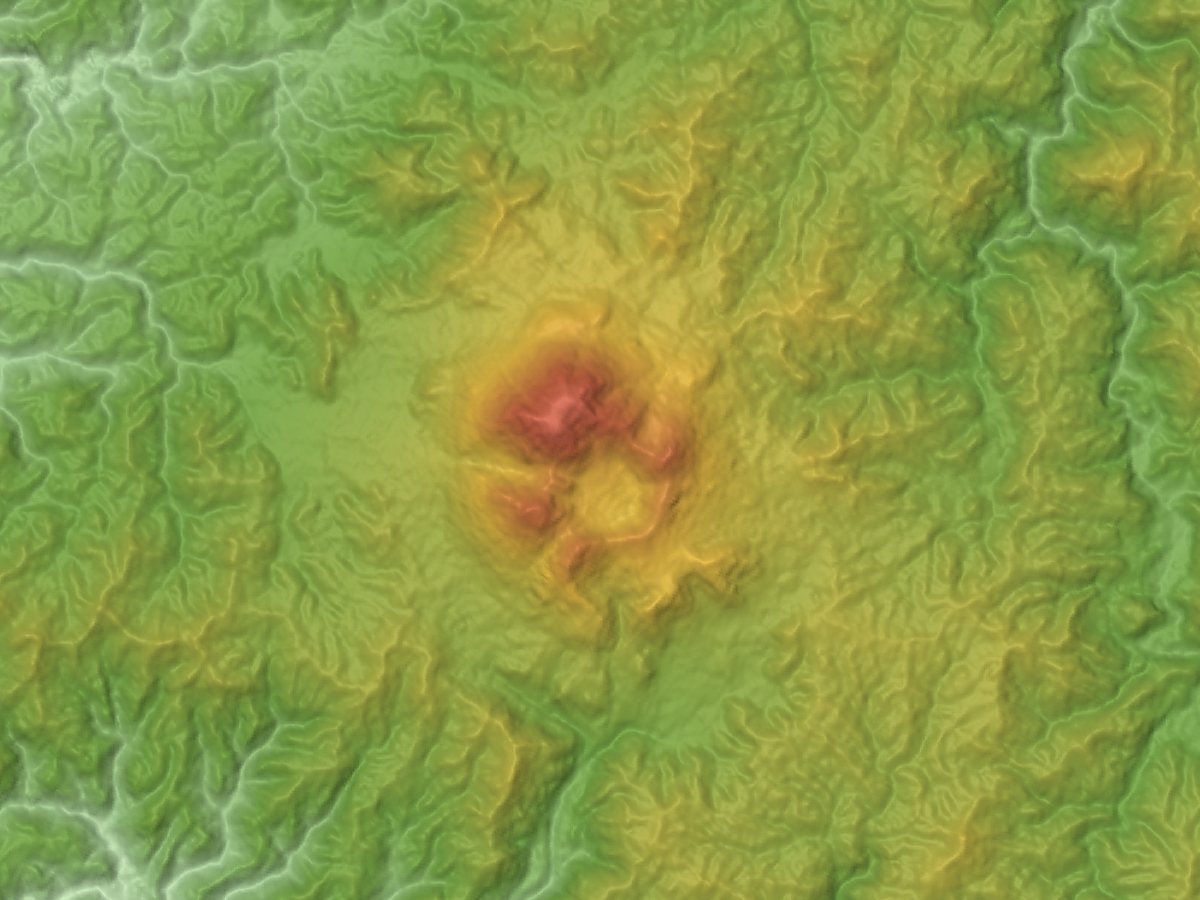 Mount Sanbe in Shimane Prefecture, Honshu, Japan.